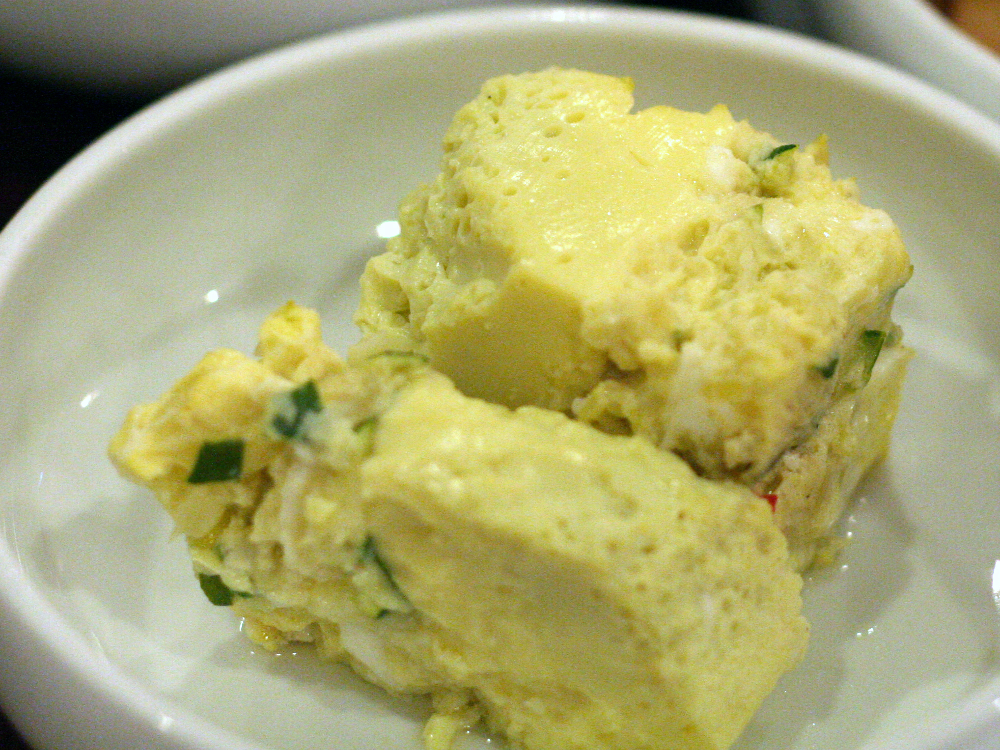 Gyeranjjim, a Korean dish made with eggs